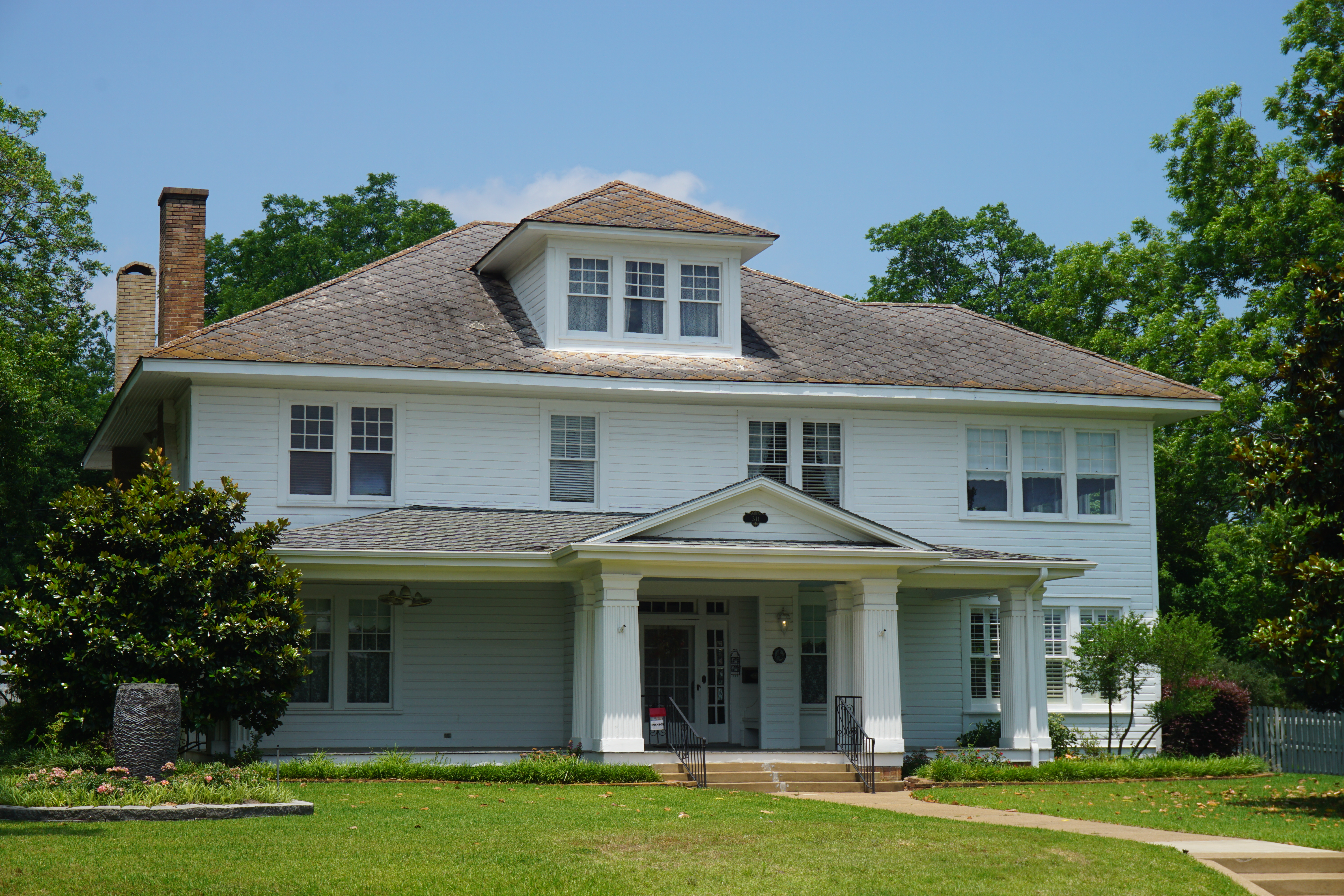 The Howard L. and Vivian W. Lott House in Mineola, Texas (United States).